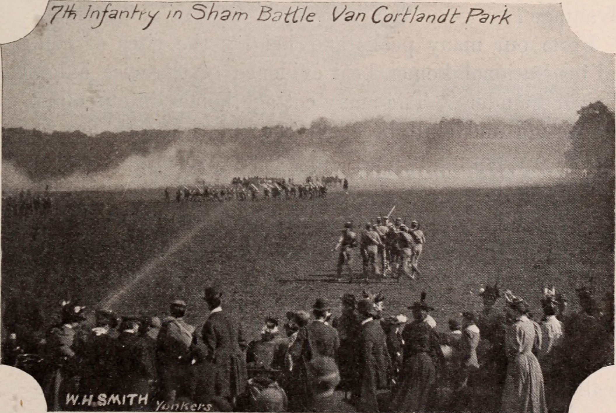 Title: The Great north side, or, Borough of the Bronx, New York Year: 1897 (1890s) Authors: Durst, Seymour B., 1913-, former owner. NNC North Side Board of Trade (Bronx, New York, N.Y.) Subjects: Publisher: New York : Knickerbocker Press Text Appearing Before Image: ' Text Appearing After Image: 248 The Great North Side. should be no centralization of growth in any pari of our citycompelling it to do more than its just share. Whence conies the need of the tall sky-scraper and wli\ should the earth groan under such an unjust burden? Winshould one lot of ground do the work of three lots, therebyshutting the sunlight from the streets and avenues thai sur-round it, leaving the air dead and impure) Has not thepedestrian certain tights that must be respected i Musi hebe forced by the monster greed to breathe an air that sunlightnever touches I Now taking all these facts into consideration, can we notwith just propriety invite the growth of our city to comenorthward and you who ate not yet one of US to share a partof its many advantages? For well might it be said, withknob and crest, ravine and plain, we have here the site forworkshop, office, home, and mansion, on this our fail- domain. beginning on the east, have we no! the finest harbor inour country, sufficient for all our busin